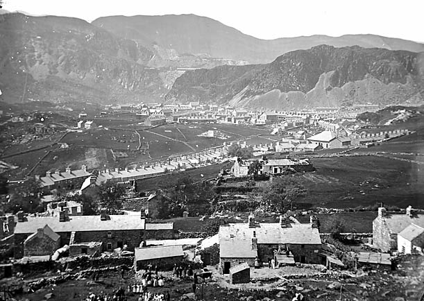 1 negative : glass, wet collodion, b&w ; 16.5 x 21.5 cm.